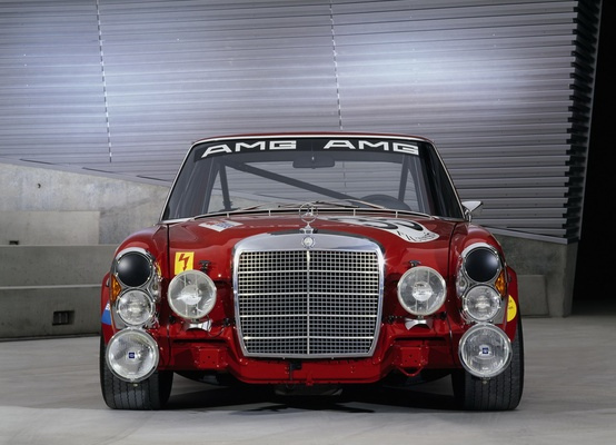 A racecar derived from Mercedes-Benz 300 SEL 6.8 (W109). Five were made, three racers and two test cars